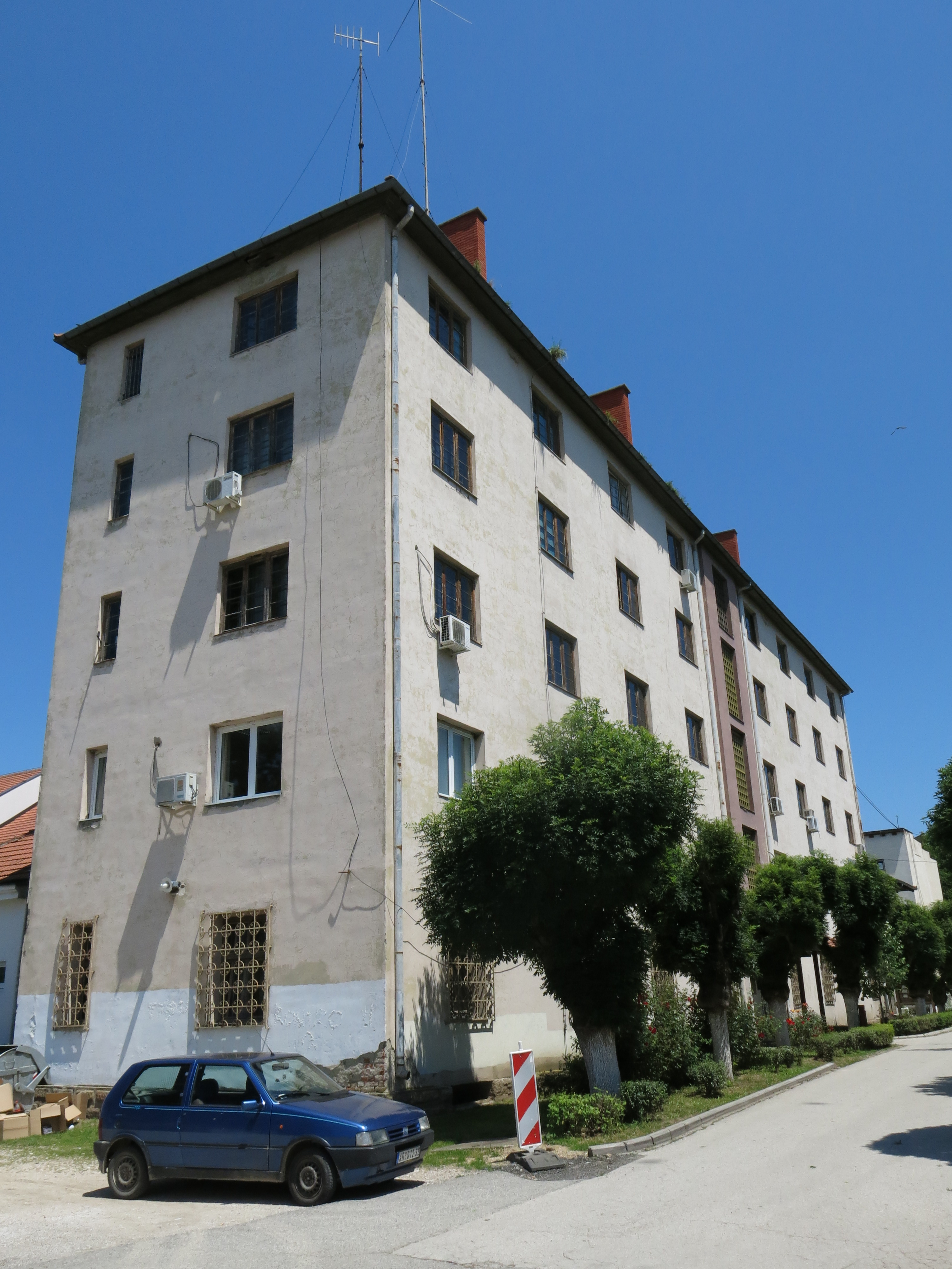 Ljig, Ljig municipality building